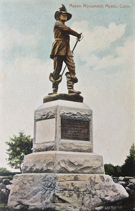 Temporary Plaster Monument